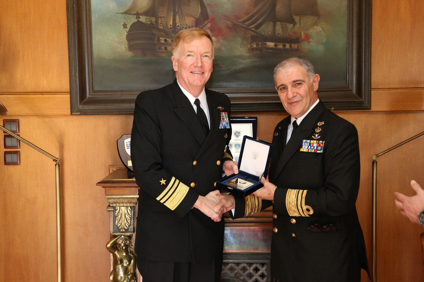 160223-ZZ999- ATHENS, Greece (Feb. 23, 2016) Vice Adm. James Foggo, III, Commander, U.S. 6th Fleet, left, and Vice Adm. Georgios Giakoumakis, Chief Hellenic Navy General Staff, exchange gifts at the Hellenic Ministry of National Defense Feb. 23, 2016. Foggo was in Athens for the signing of an agreement for the construction and operation of a new deep-water degaussing facility which will aid vessels from the U.S., Greece, NATO, and other countries in maintaining operational readiness. U.S. 6th Fleet, headquartered in Naples, Italy, conducts the full spectrum of joint and naval operations, often in concert with allied, joint, and interagency partners, in order to advance U.S. national interests and security and stability in Europe and Africa. (Photo courtesy of Hellenic Navy/Released)